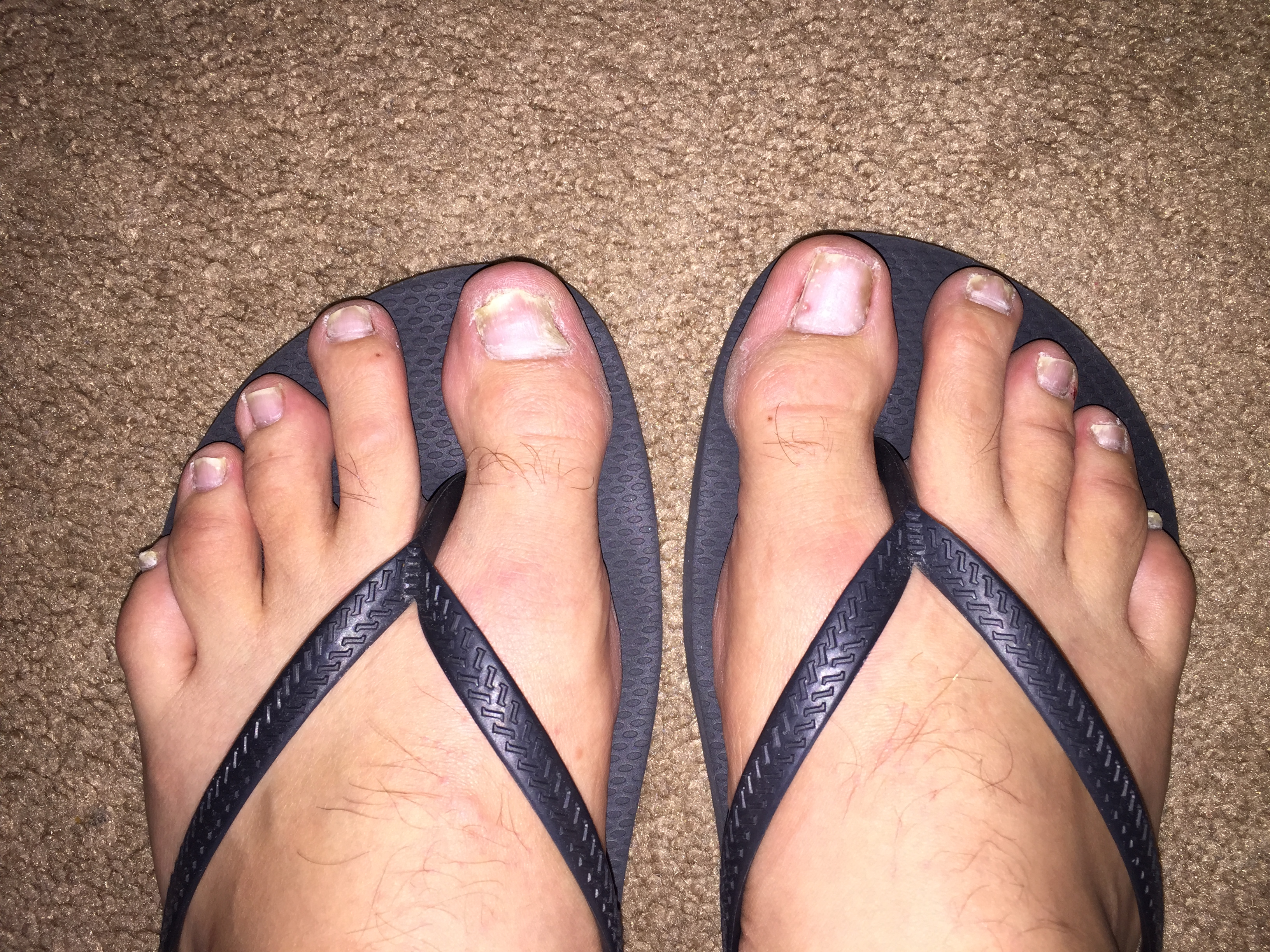 A photograph showing the effects of psoriasis on the toenails.